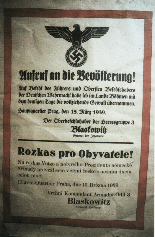 The German occupying Decree of 15 March 1939. The bad Czech is notified that the Germans took over all power over the territory of Bohemia and Moravia